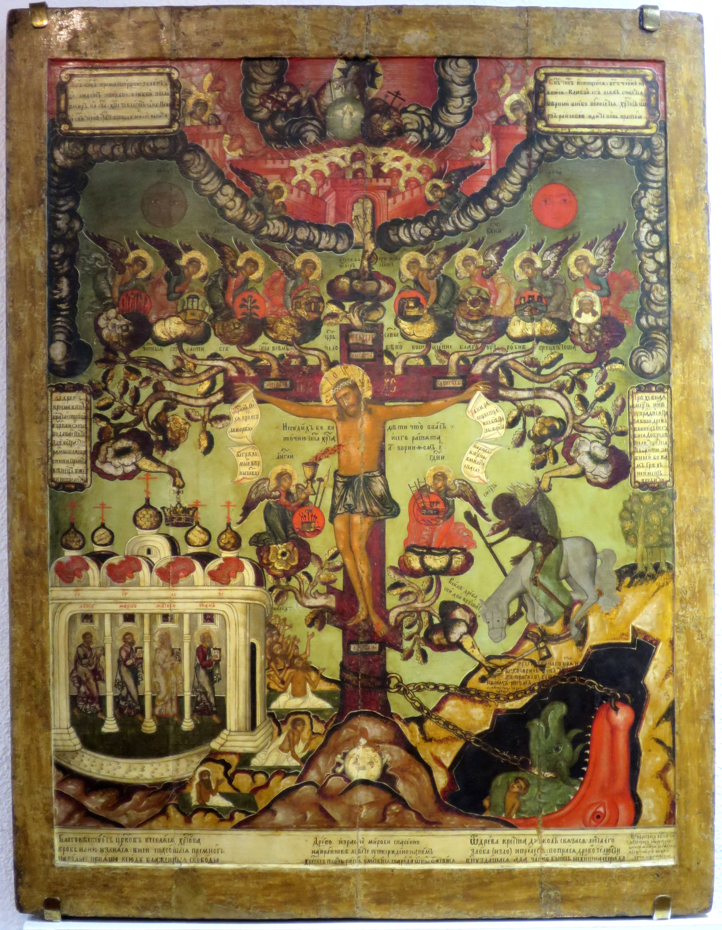 Russian icon, Fruit of the Christ Passion from the Solovetski Monastery, 1689, Arkhangelsk Regional Museum of Fine Arts